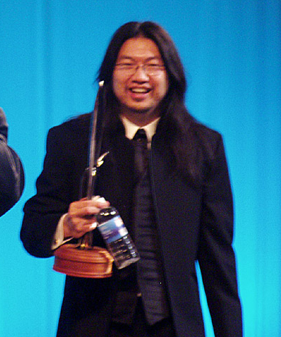 Frank Wu receiving his first Hugo Award at the 2004 World Science Fiction Convention